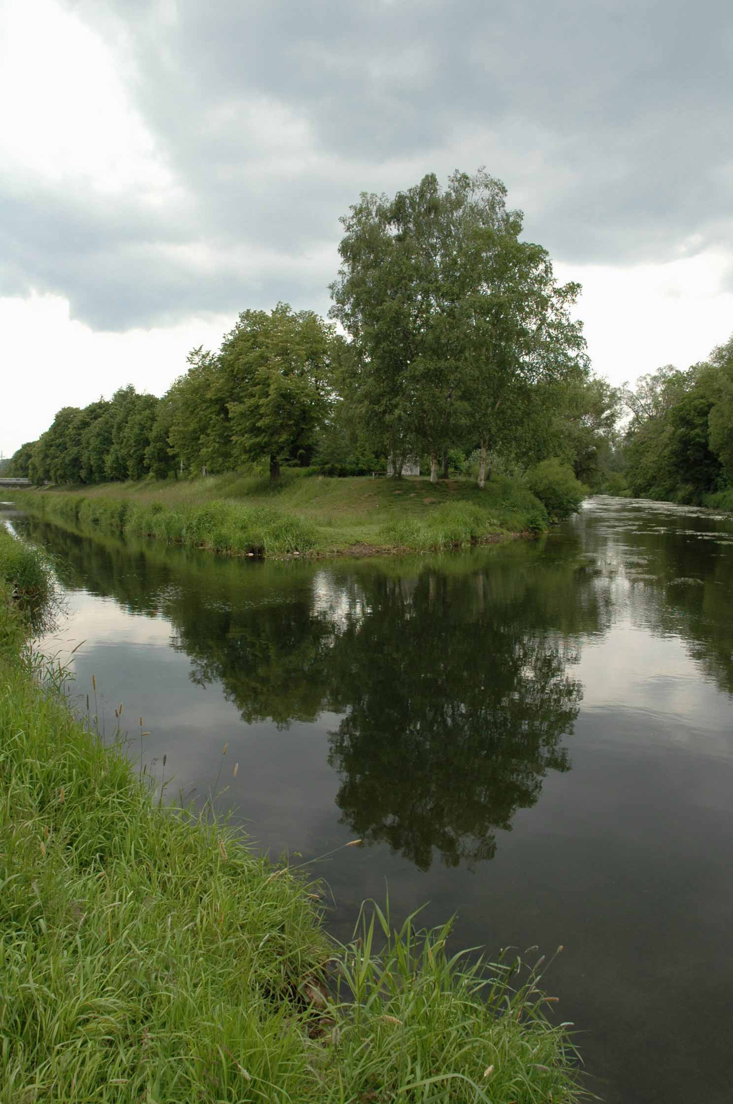 Brigach (right) and Breg (left) forming the Danube at Donaueschingen